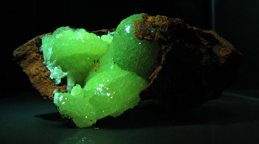 Yellow-green, radiating crystal groups of adamite in limonite. Sample from Ojuela mine, Durango, Mexico. Photo taken at the Natural History Museum, London.